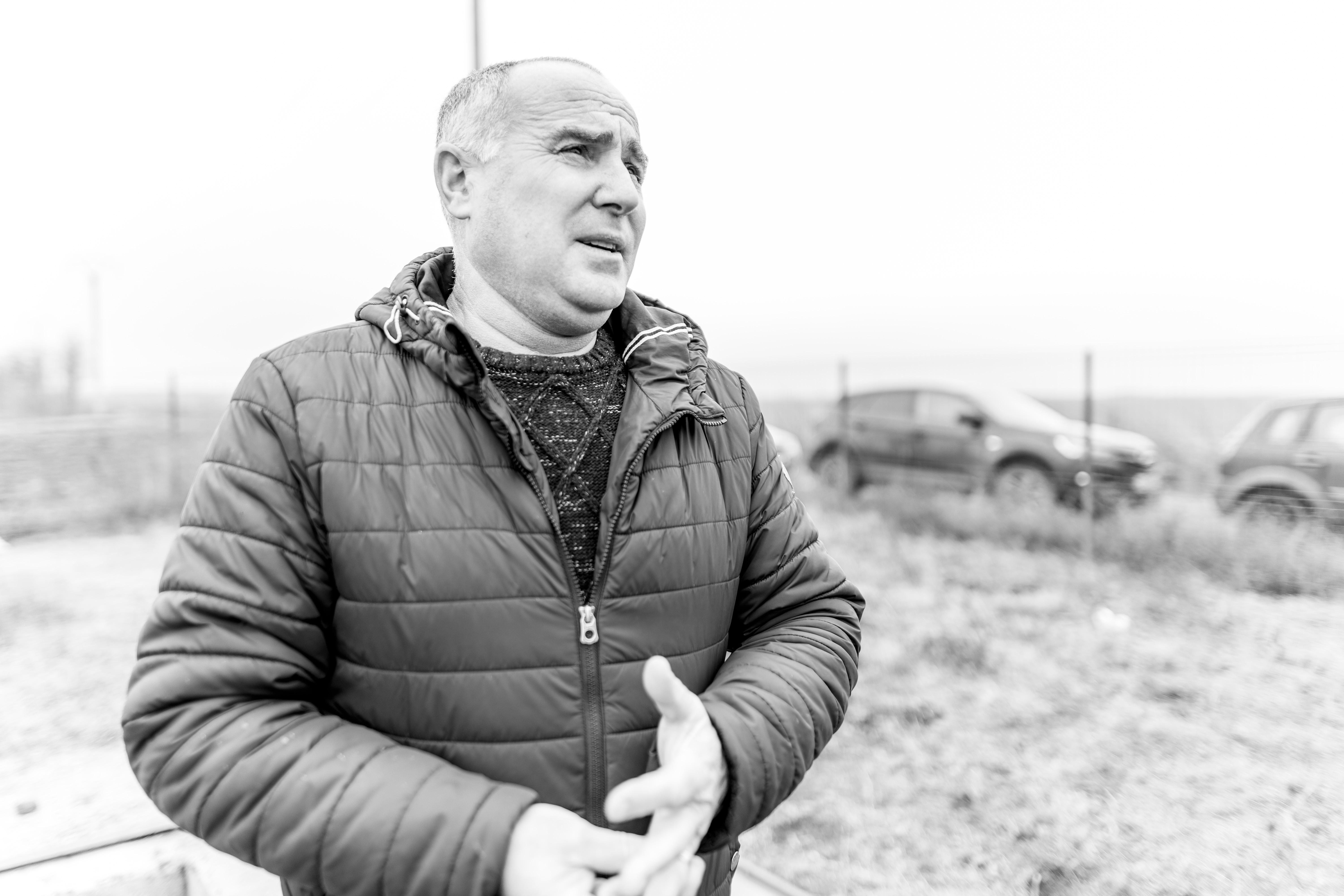 Nelu Chițoiu, January 17th, 2020